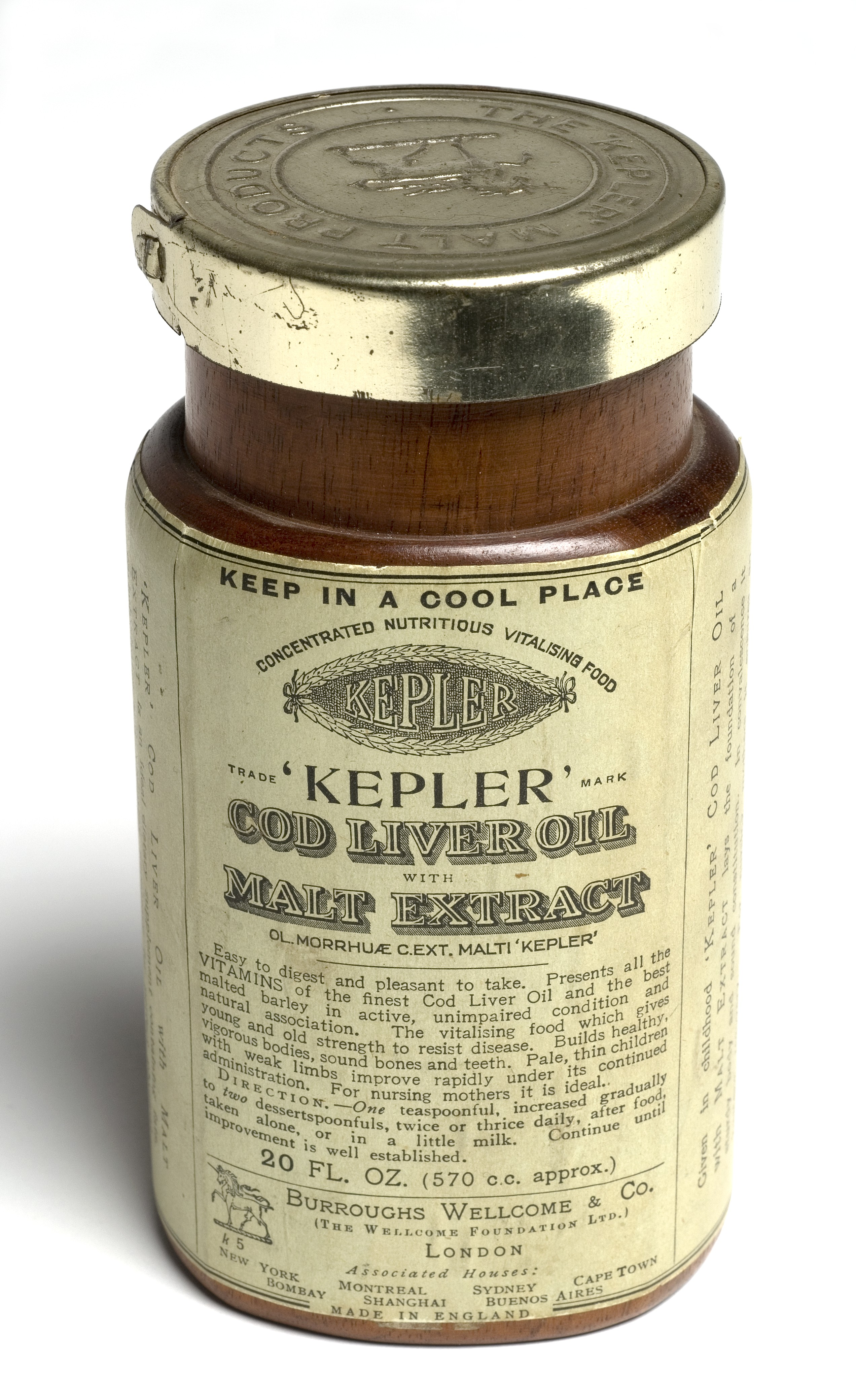 Wellcome Foundation Object. Wellcome Images Keywords: Burroughs Wellcome & Co